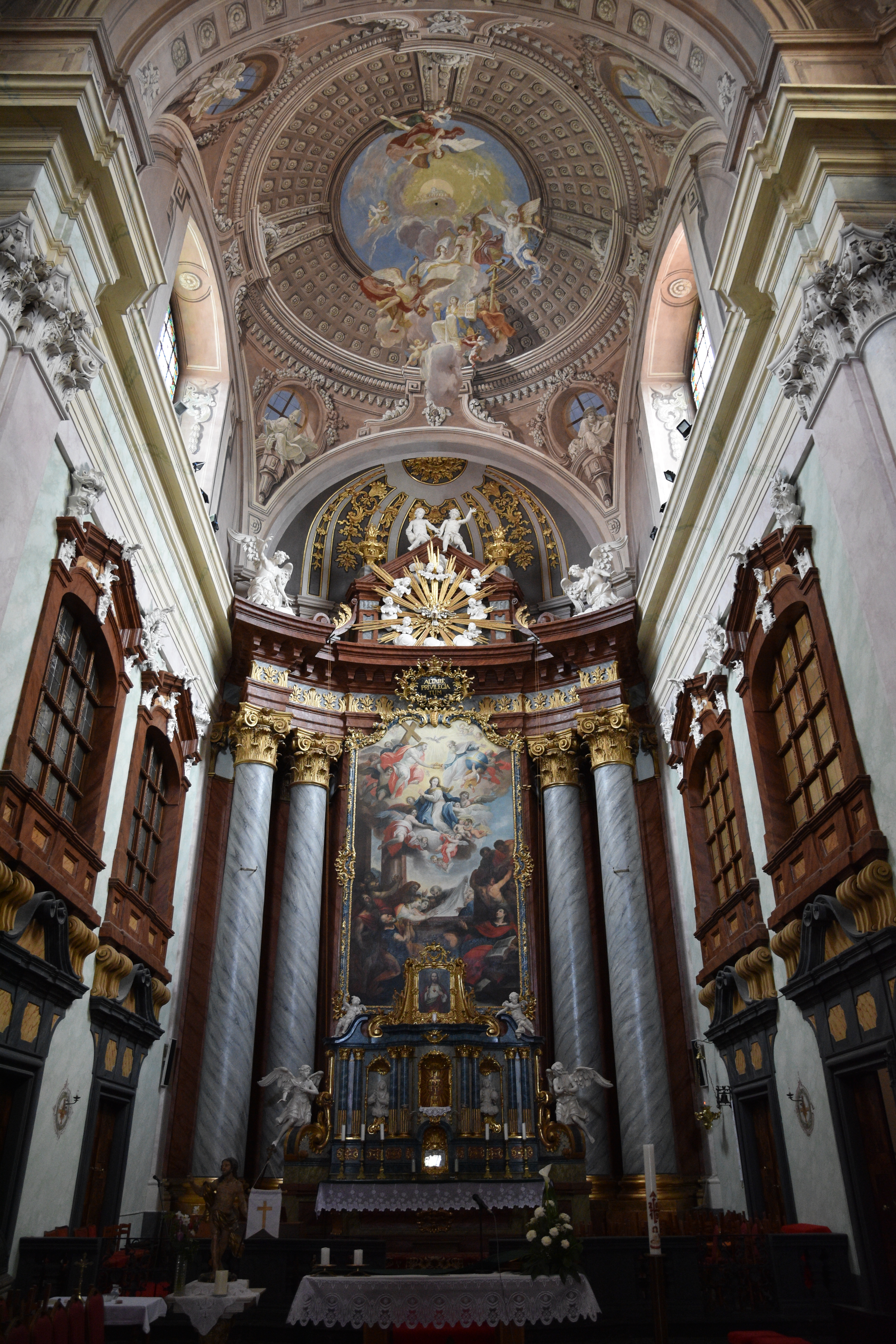 Cistercian church, Szentgotthárd (interior)